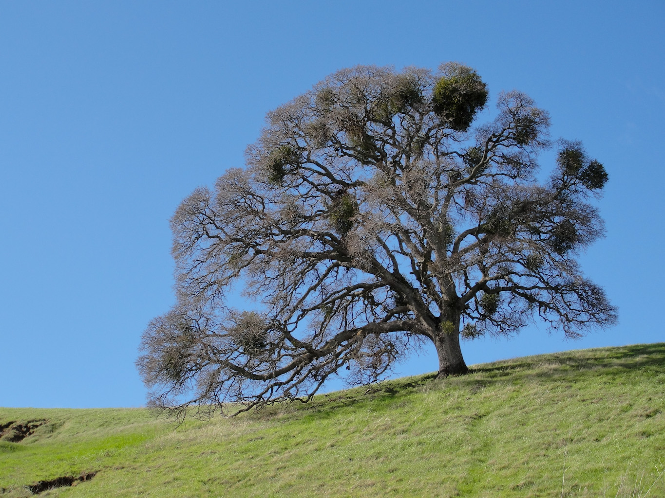 A Valley Oak (Quercus lobata) on Mount Diablo, in Contra Costa County, California. The dark green clumps on the branches are mistletoe.